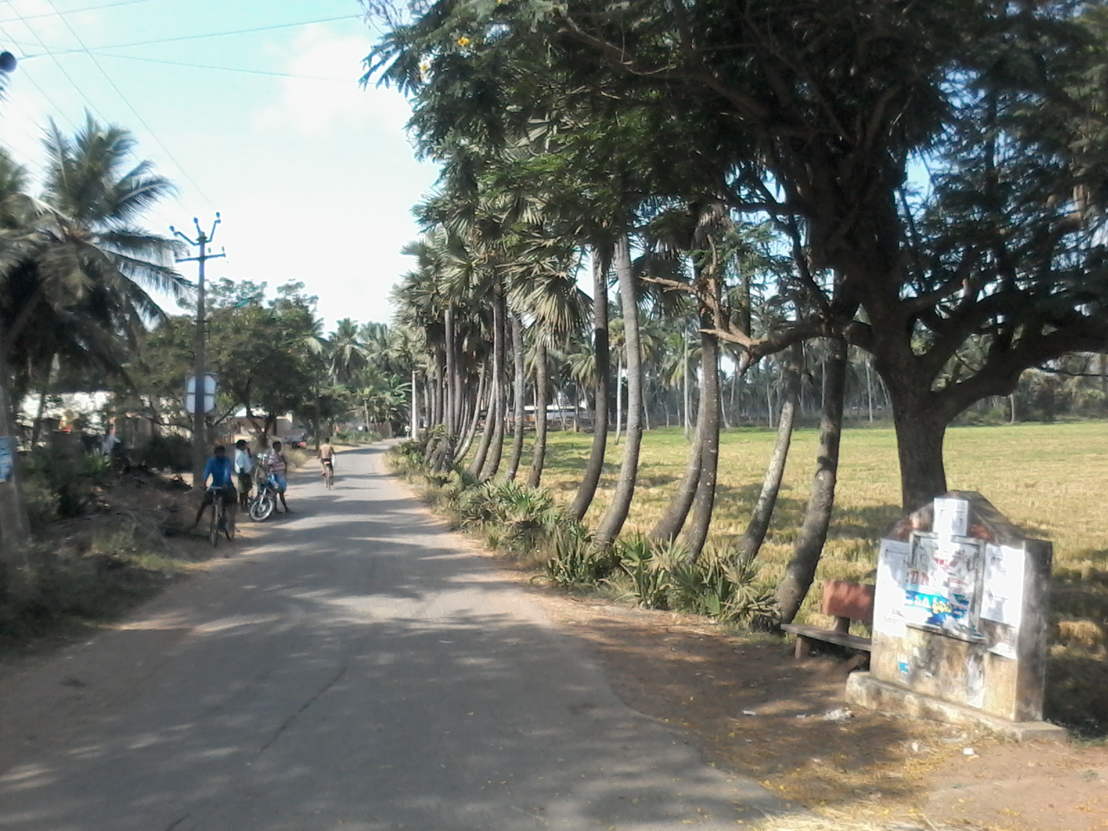 Road to Bhatlamaguturu village, West Godavari district, Andhra pradesh